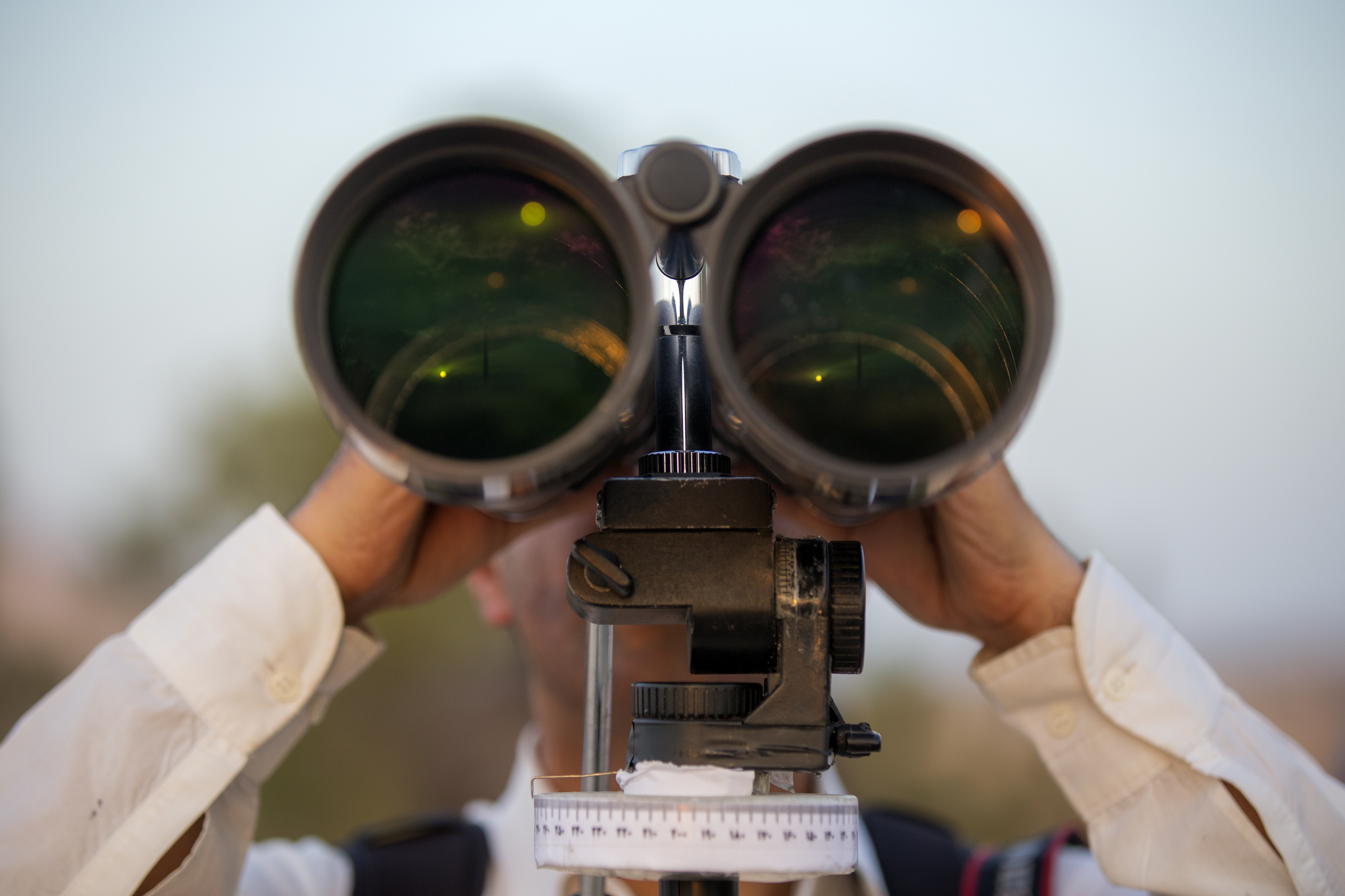 Astronomy (from Greek: ἀστρονομία) is a natural science that studies celestial objects and phenomena. Žemaitėška: Astruonuomėjė (gr. astron - žvaiždie, nomos - diesnės) - muokslos, apėmontės reiškėniū, esontiū ož Žemės ė anuos atmuosperas, stebiejėma ė aiškėnėma. Zeêuws: De astronomie of staerrekunde ou zen eihen bezig mie 't bekieken en verklaeren van diengen buut'n de atmosfeêr. ייִדיש: אַסטראָנאָמיע איז די וויסנשאפט וואס באהאנדלט איבער די הימלען באַװעגונגען, און אַלעס װעגן אַנטװיקלונגען אַרום אונדזער װעלט ו.צ.ב די זון מיט דער לבֿנה, שטערן און אַלע הימל געשעענישן. Xitsonga: Dyondzo ya tinyeleti (kusukela eka Xigriki: αστρονομία ) i sayensi leyi lavisisaka hi ta tinyeleti ta tilo na swilo leswinge matilweni. Wolof: Saytubiddiw mooy xam-xam biy xool aka saytu biddiw yi, di jéem a faramface ak a leeral seen melokaan ci jëmm ak ci simi, seenug magg ak seen cosaan. Ido: فلکیات قُدرتی علوم کی ایک ایسی مخصُوص شاخ ہے جس میں اجرامِ فلکی (مثلاً، چاند، سیارے، ستارے، سحابیے، کہکشاں، وغیرہ) اور زمینی کرۂ ہوا کے باہر روُنما ہونے والے واقعات کا مشاہدہ کیا جاتا ہے۔ اِس میں آسمان پر نظر آنے والے اجسام کے آغاز ، ارتقاء اور طبعی و کیمیائی خصوصیات کا مطالعہ بھی کیا جاتا ہے۔ فلکیات کے عالم کو فلکیاتدان کہا جاتا ہے۔ جہاں فلکیات محض اجرامِ فلکی اور دیگر آسمانی اجسام پر غور کرتی ہے، وہاں پوری کائنات کے سالِم علم کو علم الکائنات کہتے ہیں۔ Winaray : It Astronomiya[1] (Griyego: αστρονομία = άστρον + νόμος, astronomia = astron + nomos, kon ha literal, "balaod han mga bituon") amo an siyensya hit fenomena ha kalangitan nga natikang ha gawas han atmosferya han Kalibutan. Walon: L’ astronomeye est l’ syince di l’ observacion des asses, sayant di dner ene esplicåcion so leu skepiaedje, leu manire di candjî, leus prôpietés fizikes et tchimikes.